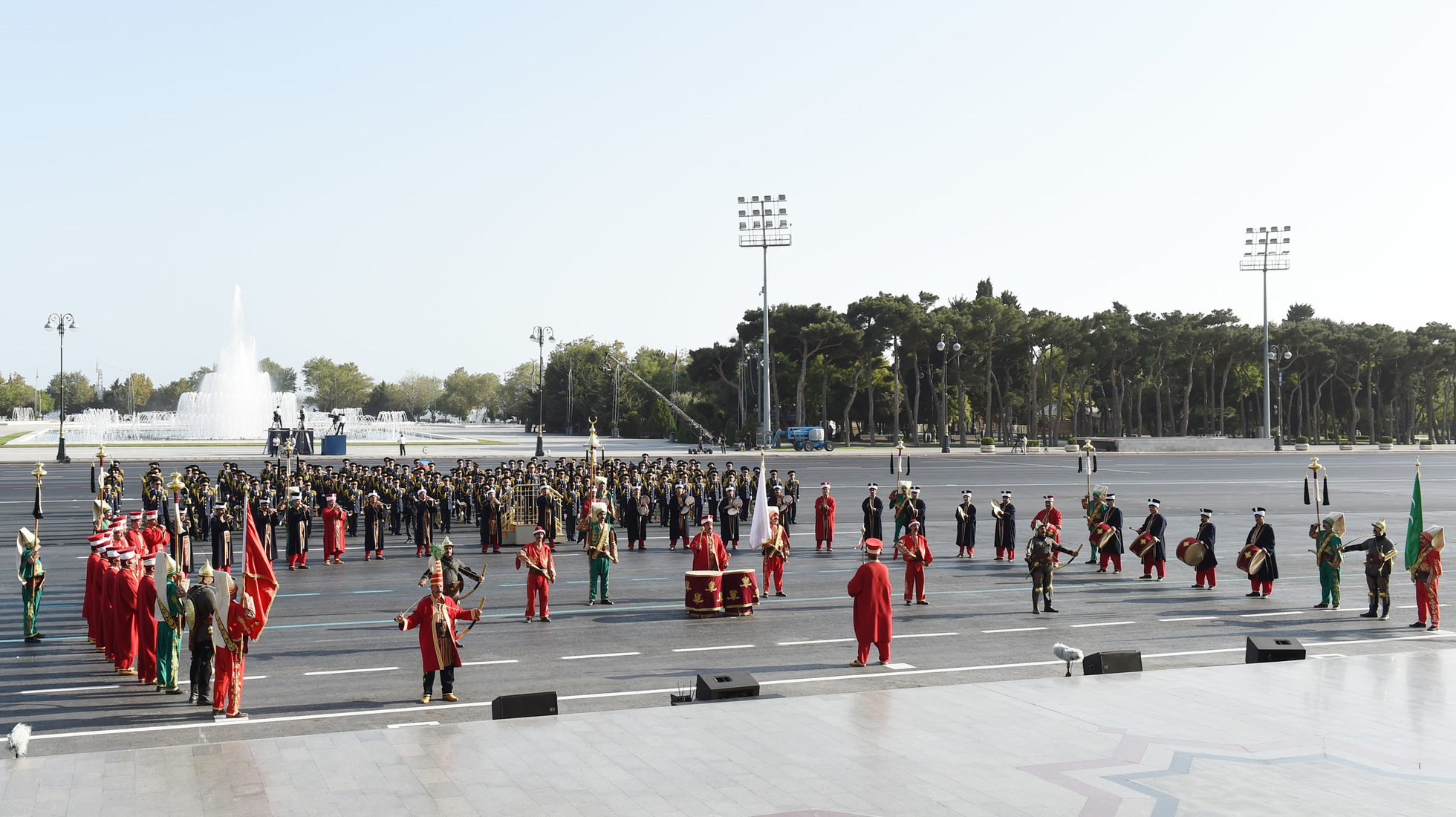 Ilham Aliyev and Recep Tayyip Erdogan attended the parade dedicated to 100th anniversary of liberation of Baku